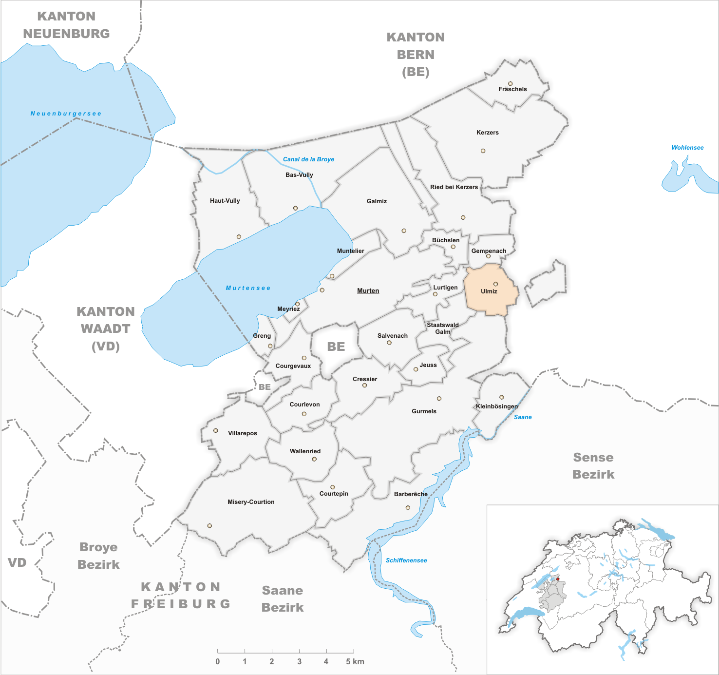 Municipality Ulmiz